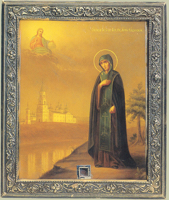 Saint Anna of Kashin, Russian icon